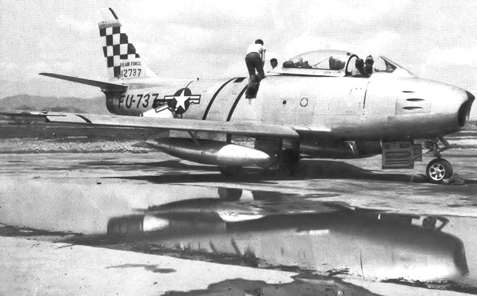 25th Fighter-Interceptor Squadron North American F-86E-10-NA Sabre 51-2737 K-12 (Mangun AB), South Korea, 1952